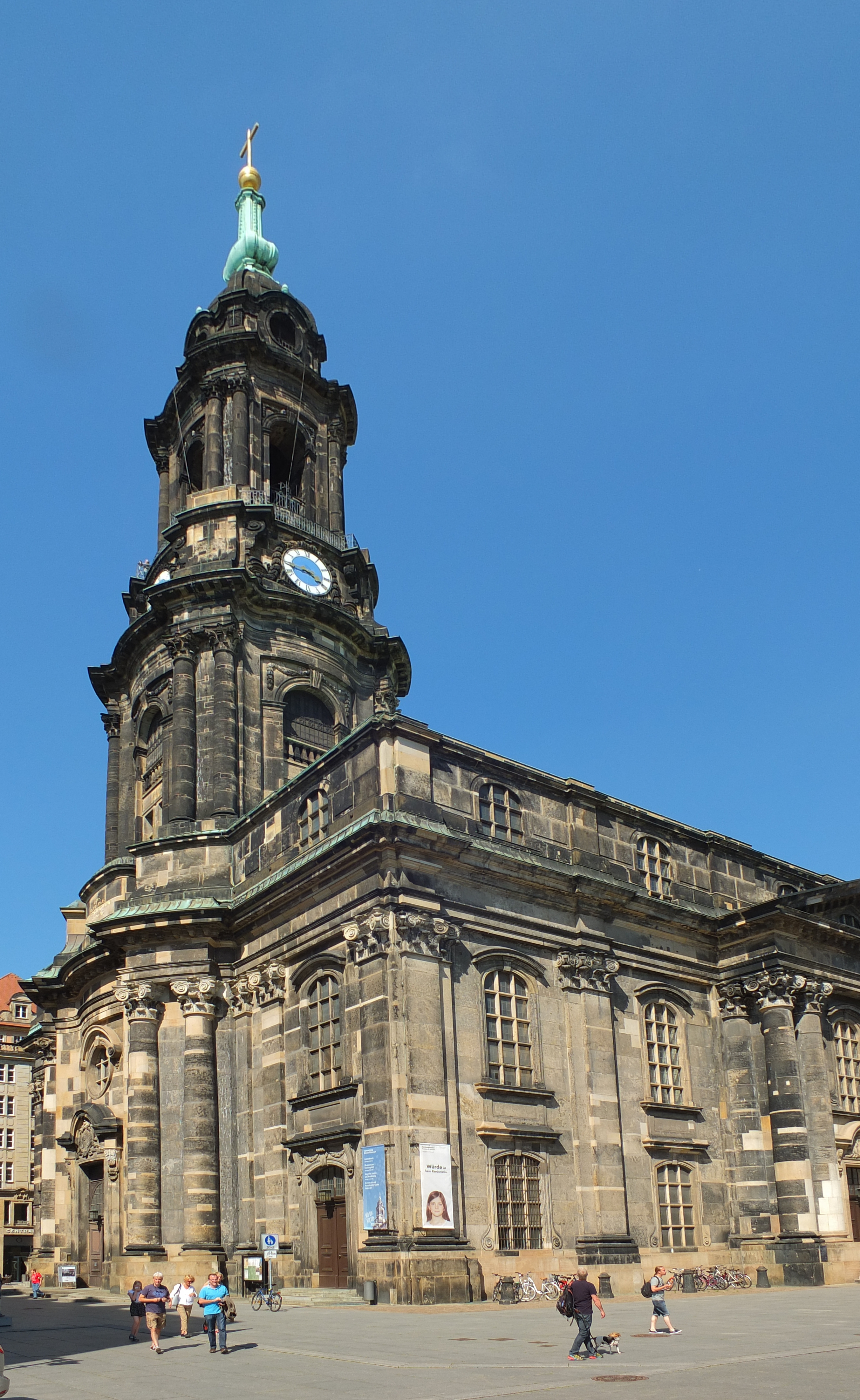 Kreuzkirche, Dresden at the Altmarkt in Dresden. It is the main church of the Evangelical-Lutheran Church of Saxony